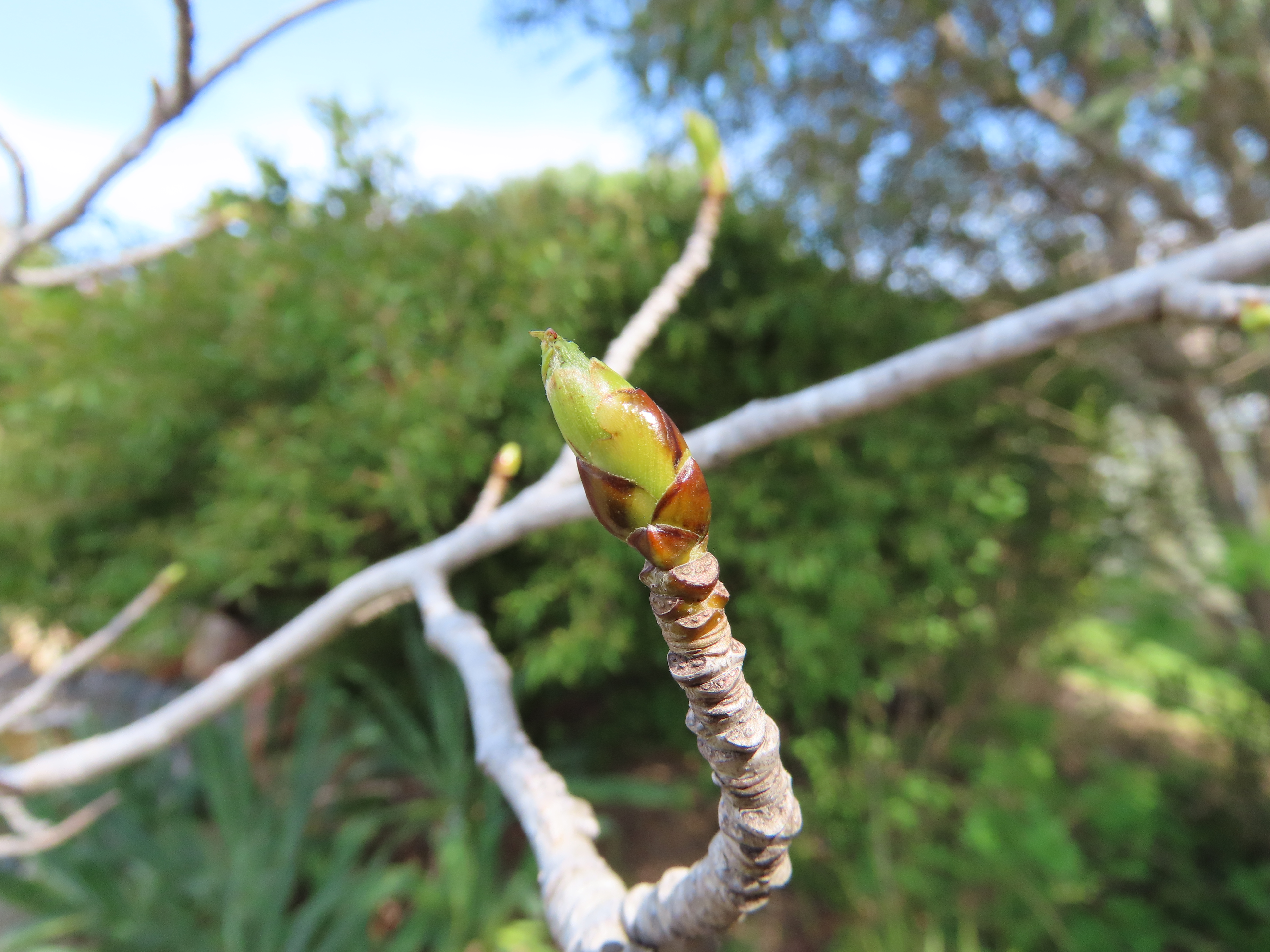 This sequence illustrates the sequence of events when the buds emerge in springtime. The species is not indigenous where the photos were taken, but they are popular and do well here.